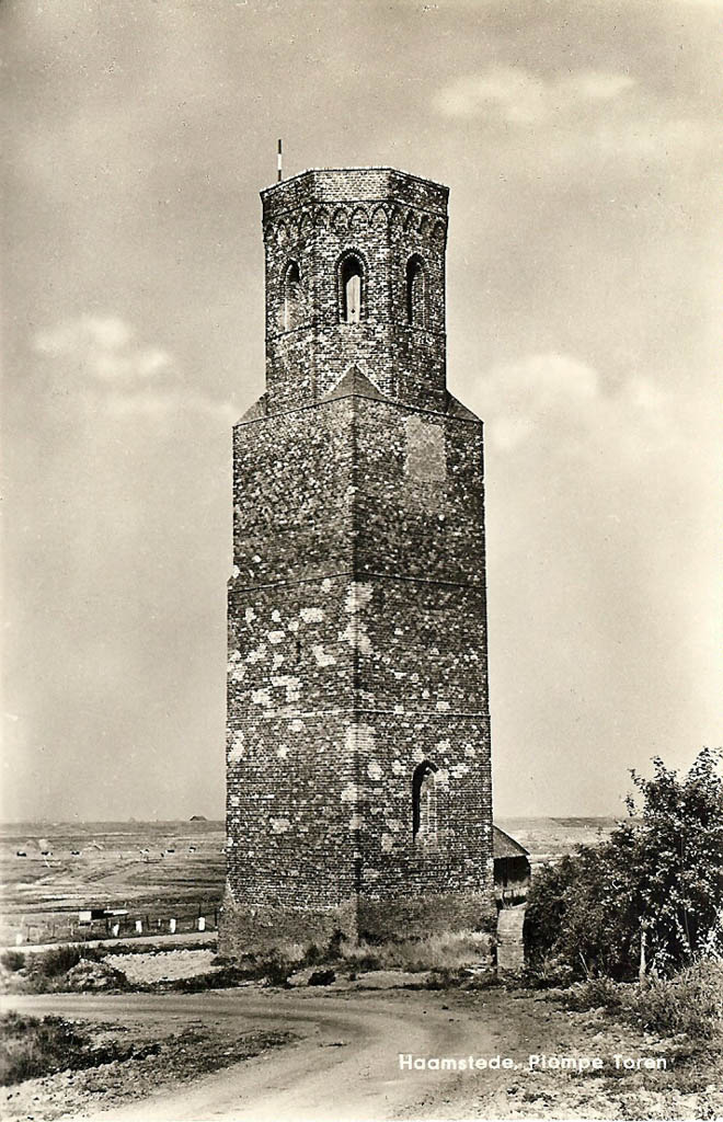 Plompe Toren